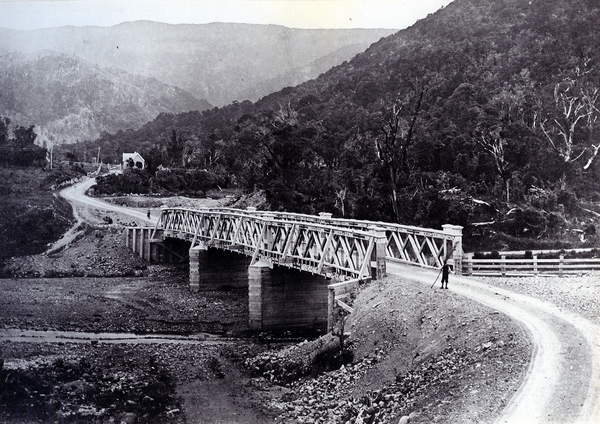 Toll bridge and toll gate at Abbotts Creek at the bottom of the Featherston side of the Rimutaka Hill road in 1875. The view looks north towards Featherston, the an unsealed road winding from right foreground to left middle ground over a bridge and off into the distance between rough hills.